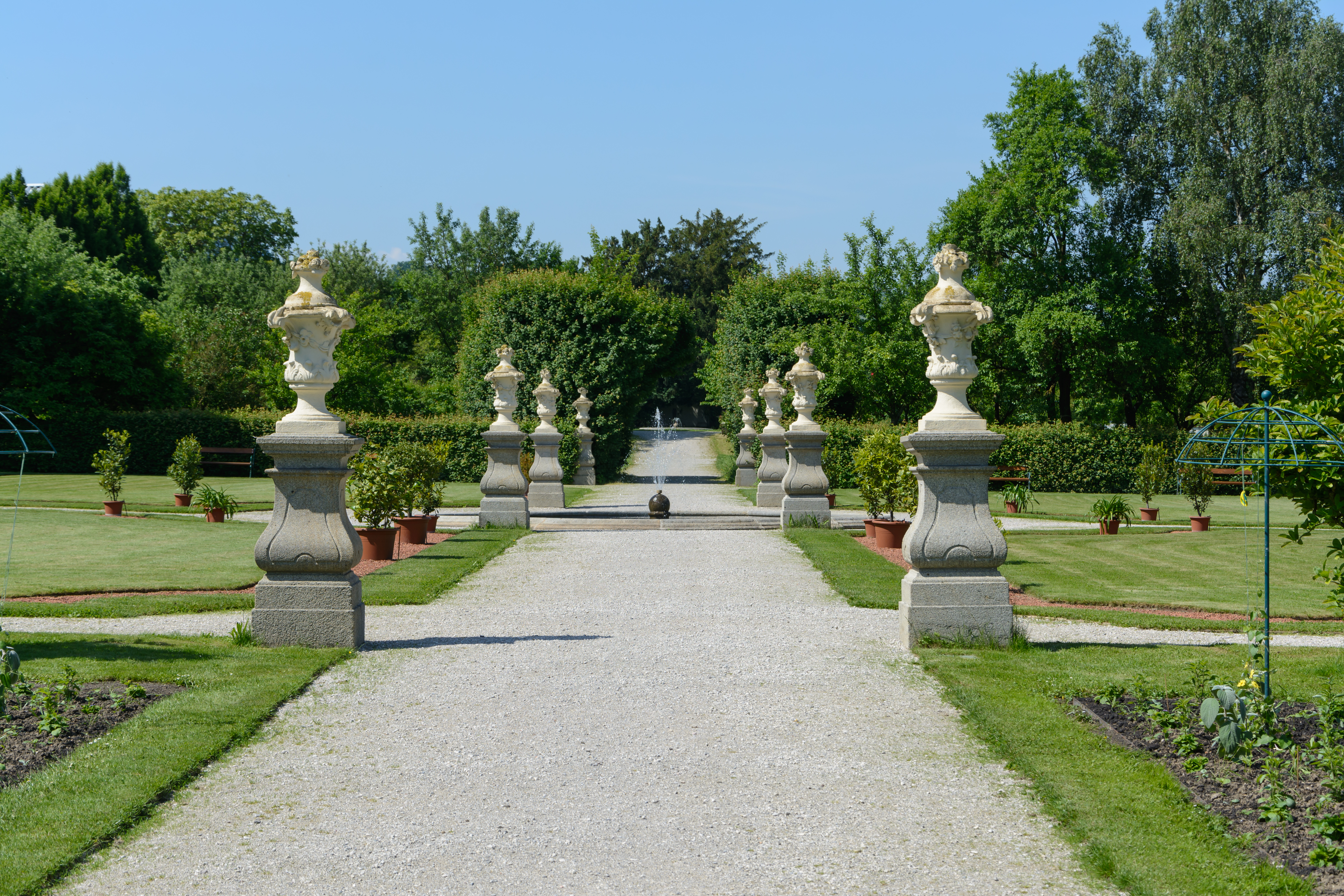 Garden of Seitenstetten Abbey, Lower Austria